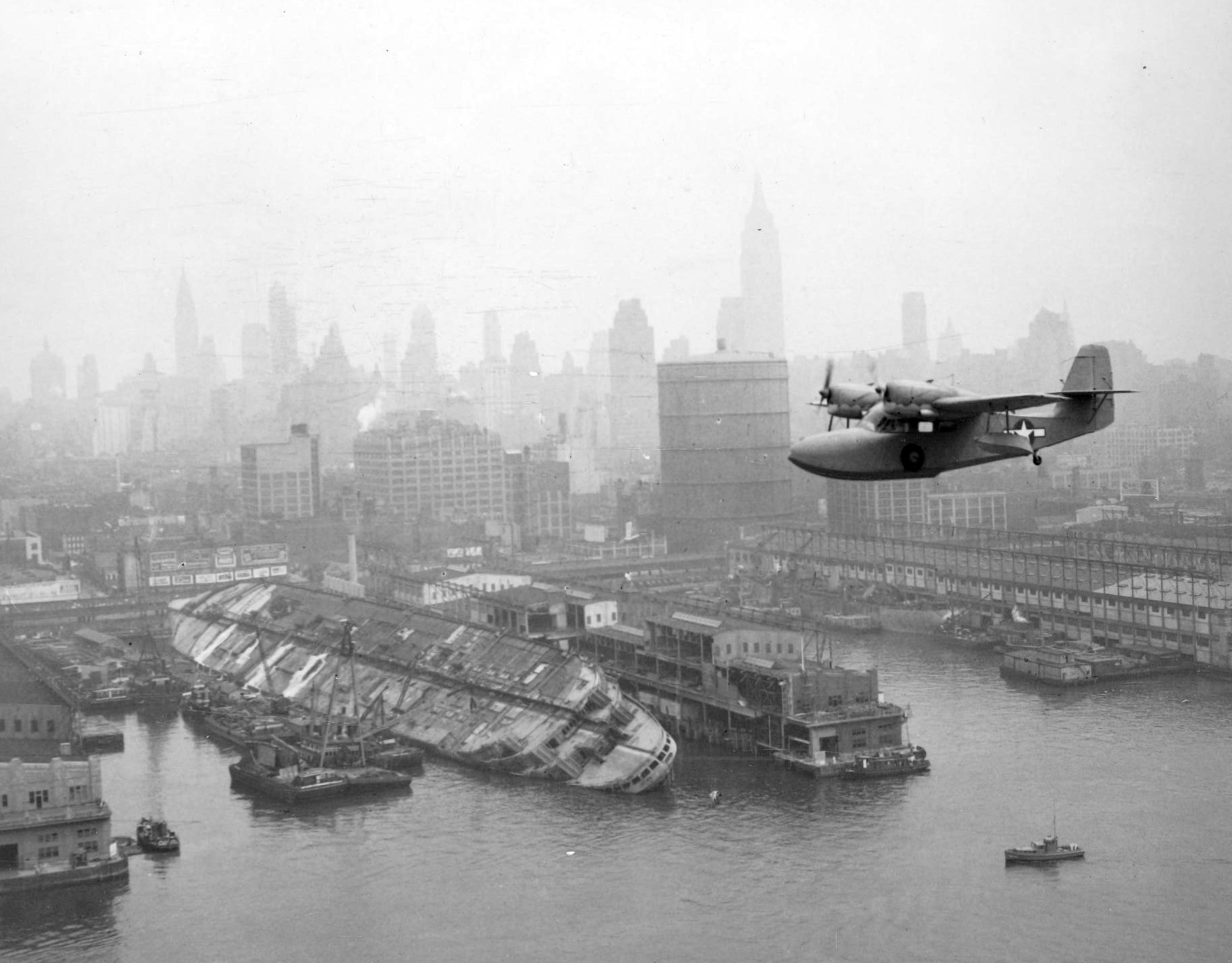 A U.S. Coast Guard Grumman J4F Widgeon flies over the wreckage of the USS Lafayette (AP-53) at Pier 88, New York harbor, on 12 August 1943.